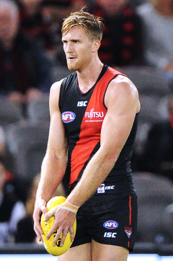 James Stewart of Essendon during the 2018 AFL round 6 match between Essendon and Melbourne at Etihad Stadium on Sunday, 29 April 2018 in Melbourne, Victoria.